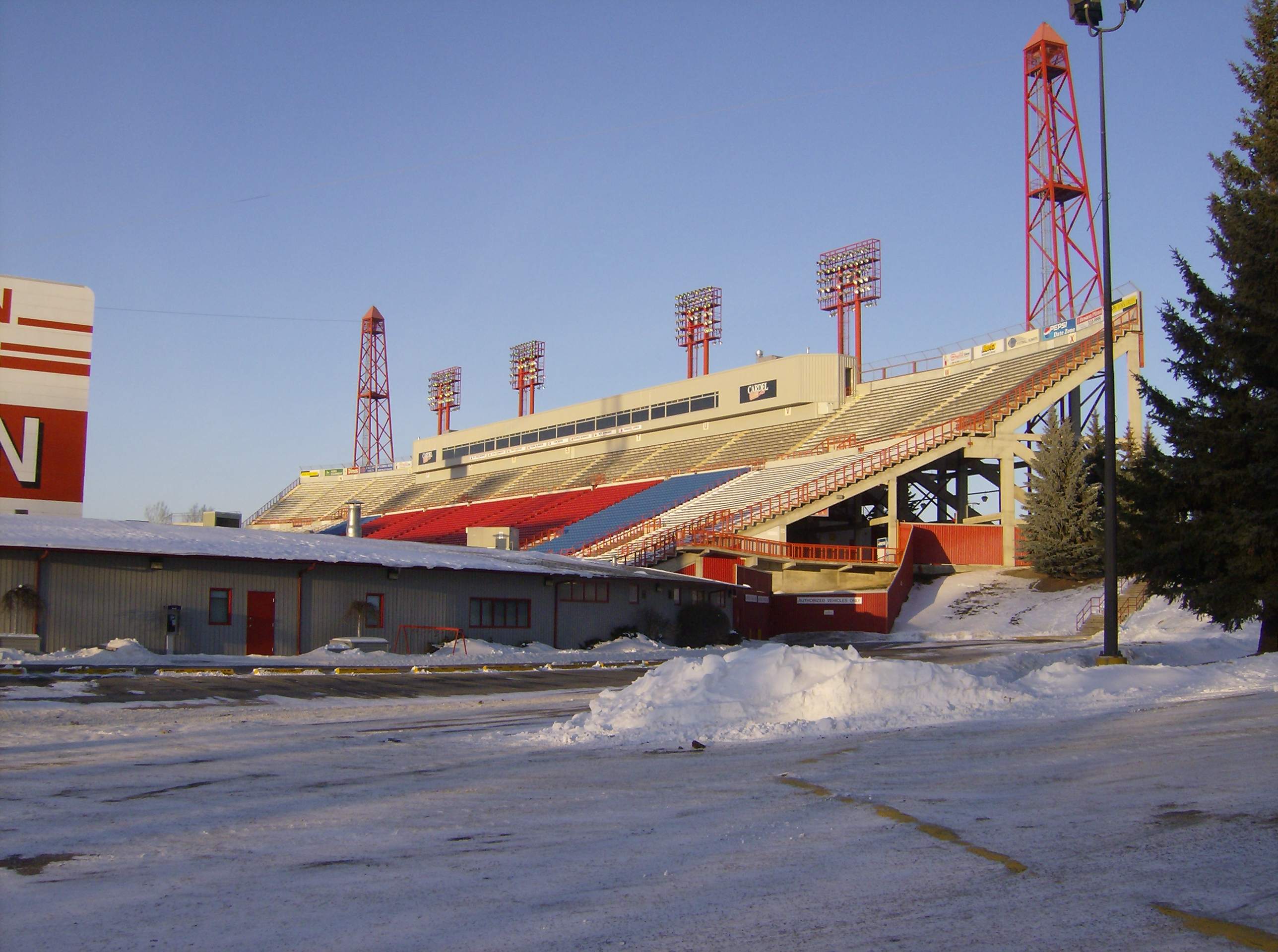 McMahon Stadium is a football stadium in Calgary, Alberta, Canada